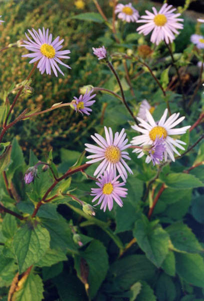 Aster himalaicus